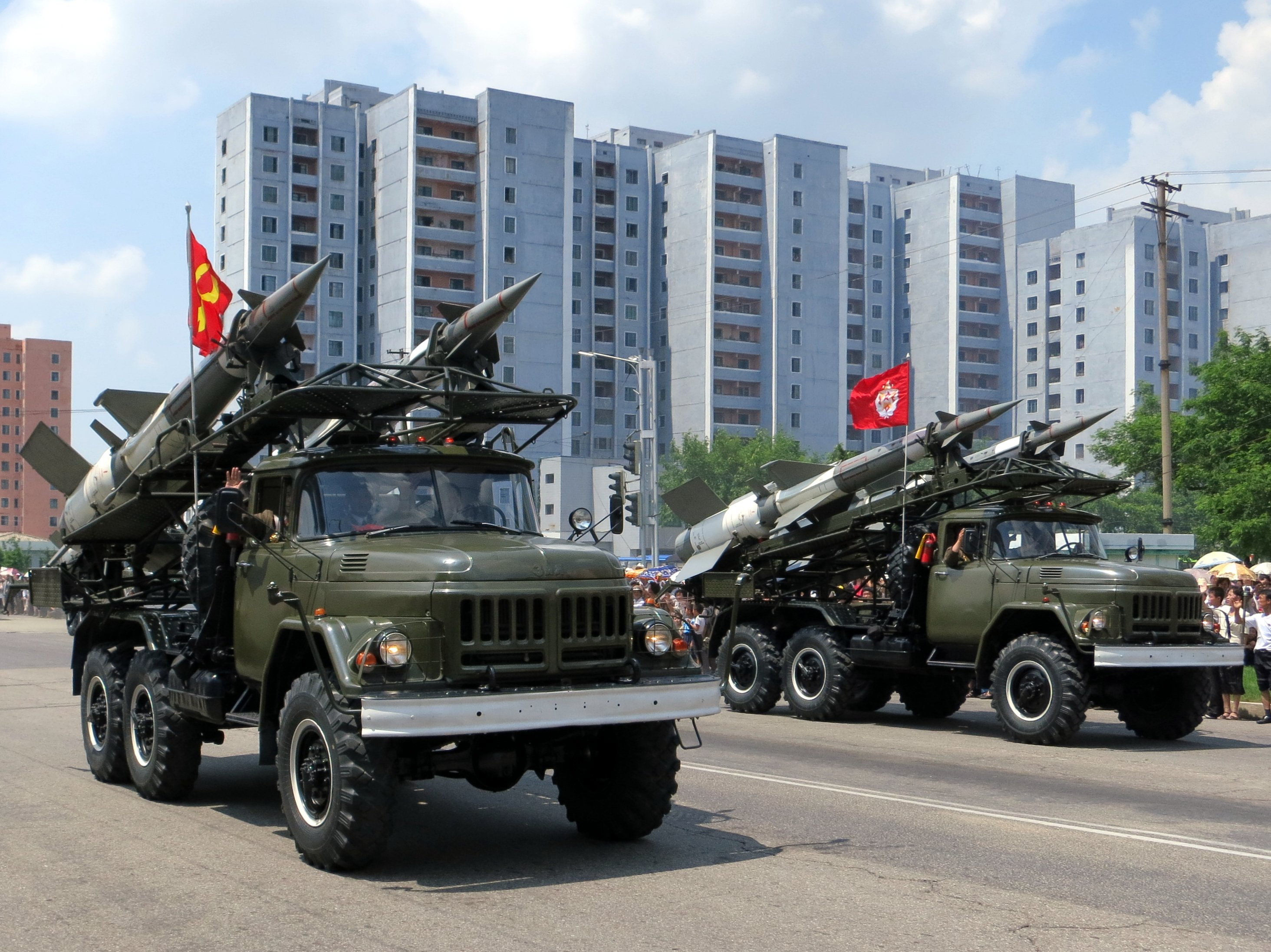 S-125 Pechora - North Korea Victory Day-2013